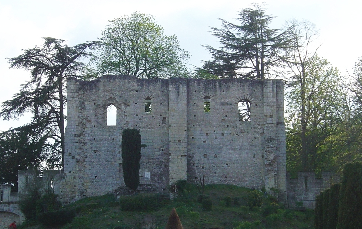 The ruined keep of Chateau de Langeais